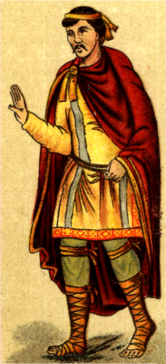 Frankish noble (9th century)